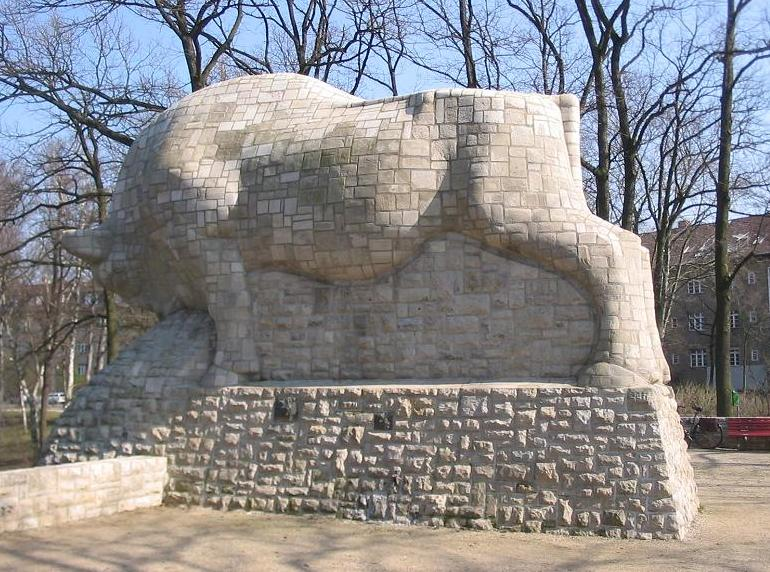 Alboinplatz in Berlin-Schöneberg, Germany. Bull-Sculpture from 1936, created by Paul Mersmann.